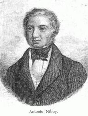 Antonio Nibby (1792 - 1839). Italian classical Archaeologist; Professor of Archaeology at the University of Rome; specialist in the study of the Topography of Rome.